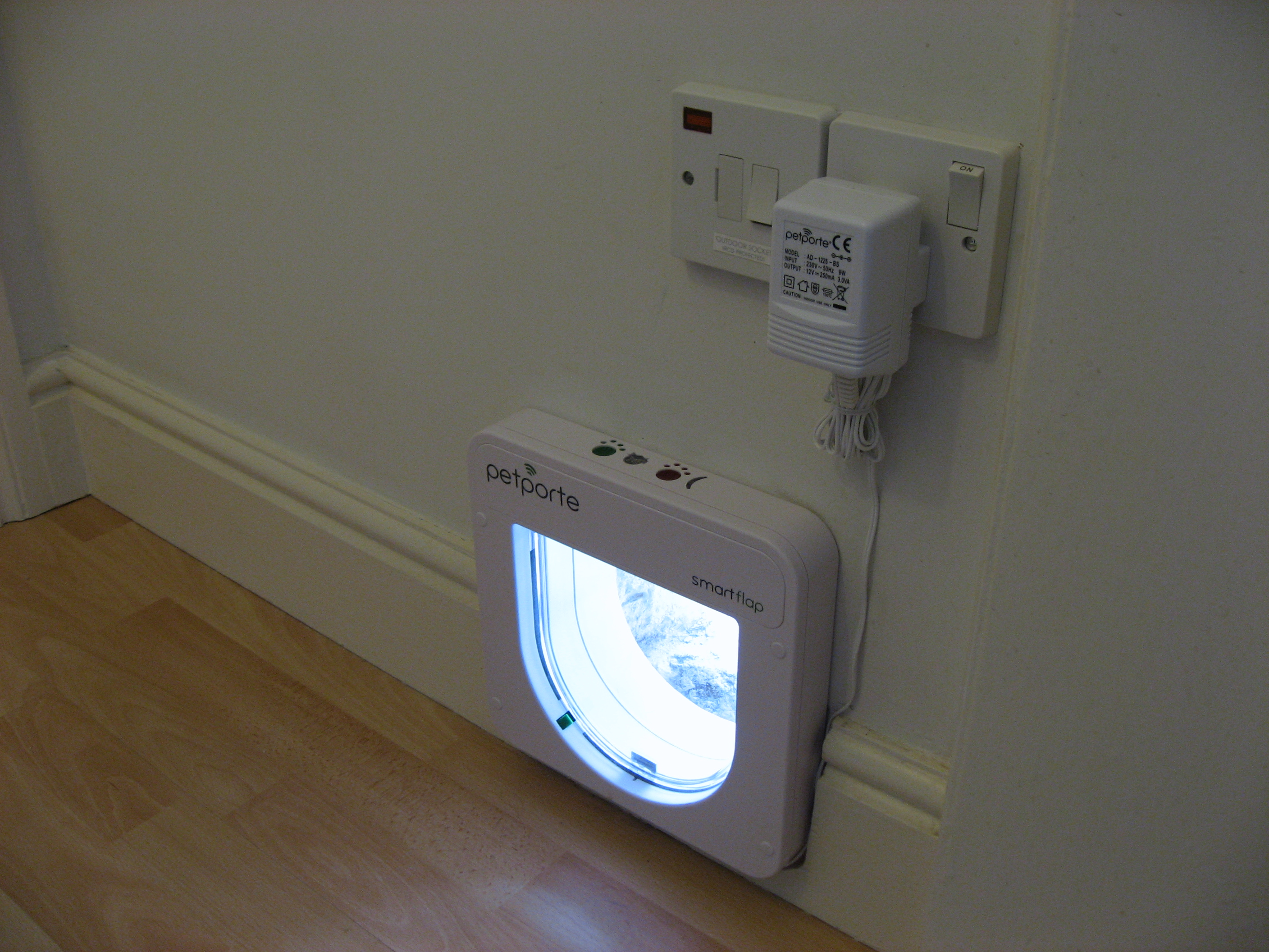 A photograph of a microchip-enabled selective access cat flap mounted in a wall.